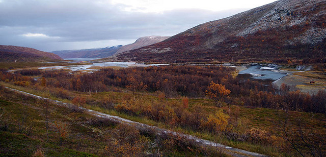 View towards Laggo and the river Langfjordelva in Langfjorddalen, Gamvik, FinnmarkNorsk bokmål: Utsikt mot Laggo og Langfjordelva fra nedre Vakthytta. Langfjorddalen i Gamvik, Finnmark